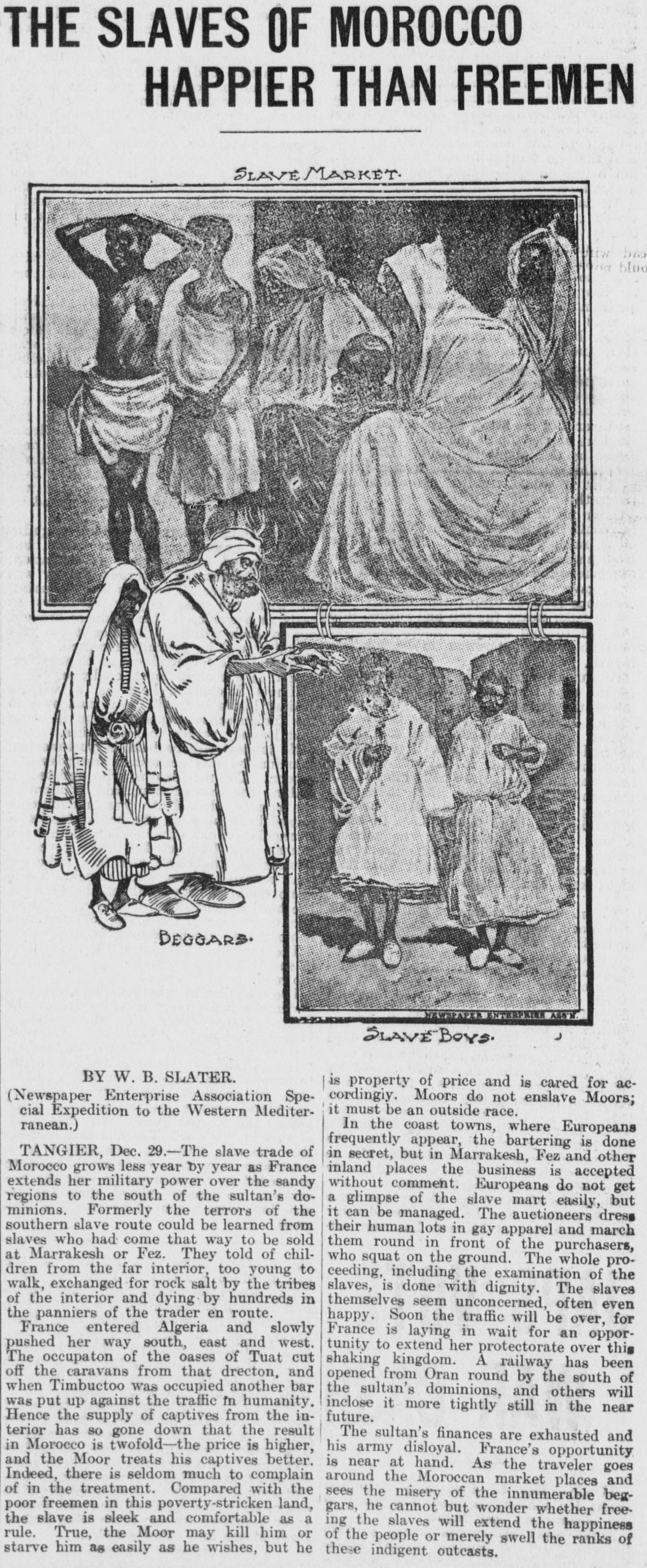 this 1903 newspaper article states that slavery was commonplace in Morocco, and that the slaves were happier than the free citizens. The text in this image should be transcribed and included in the description on this page. See also Inscription . The Google OCR tool may be of use in transcribing images.